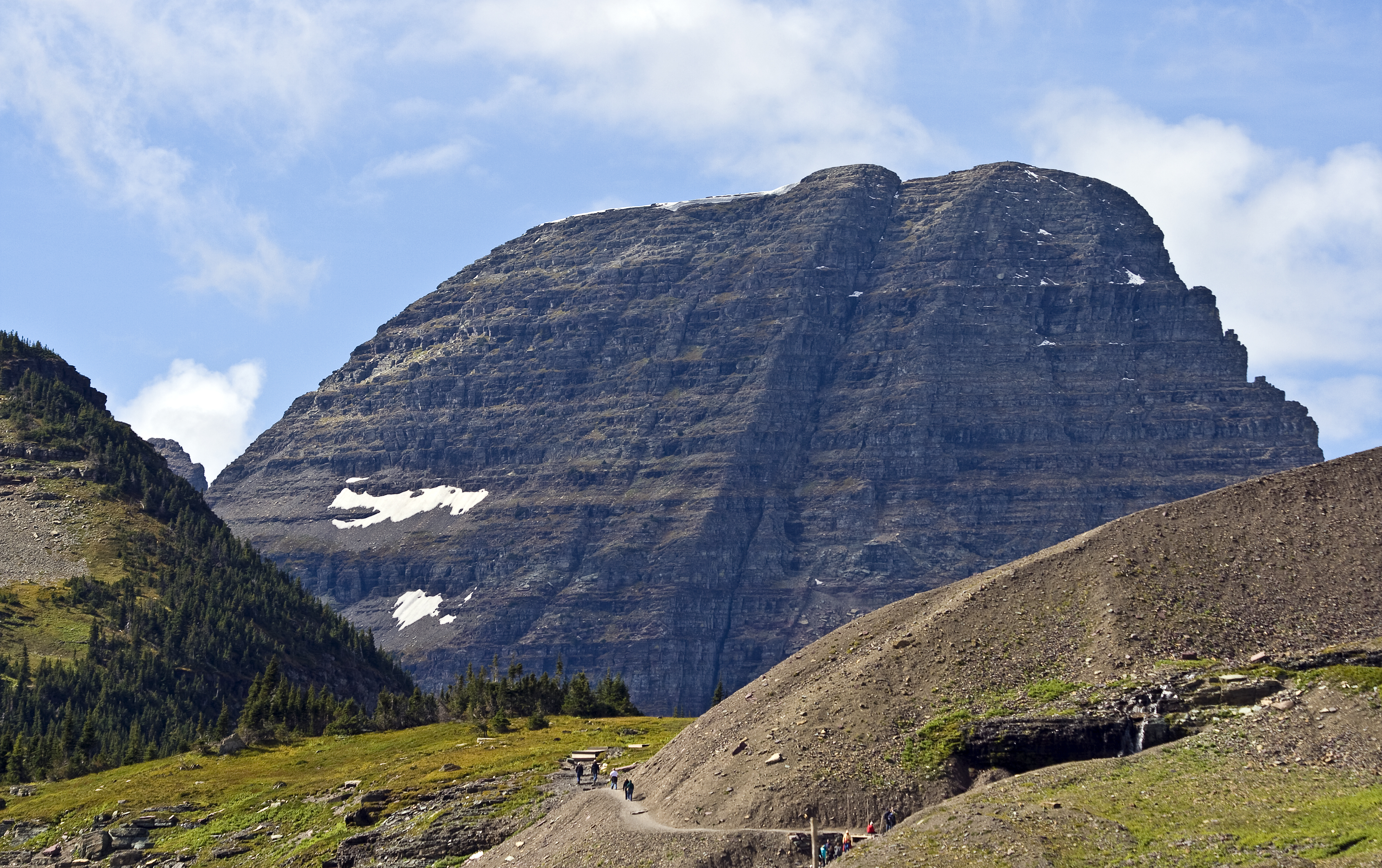 Hidden Lake Trail, from Logan Pass, with Bearhat Mountain in background in Glacier National Park, Montana, USA